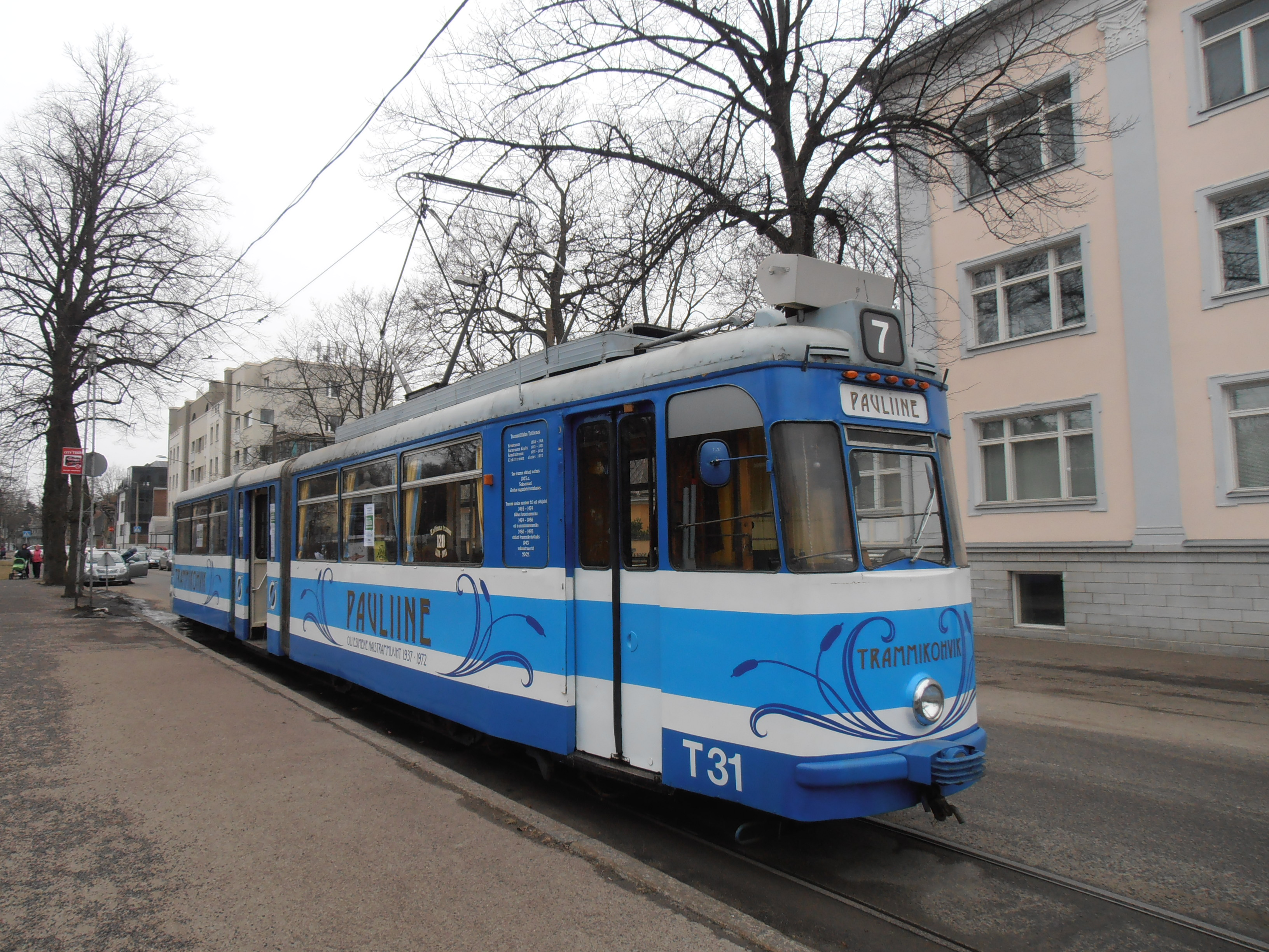 Public transport (buses, trolleys and trams) in Tallinn will be free of charge for its residents